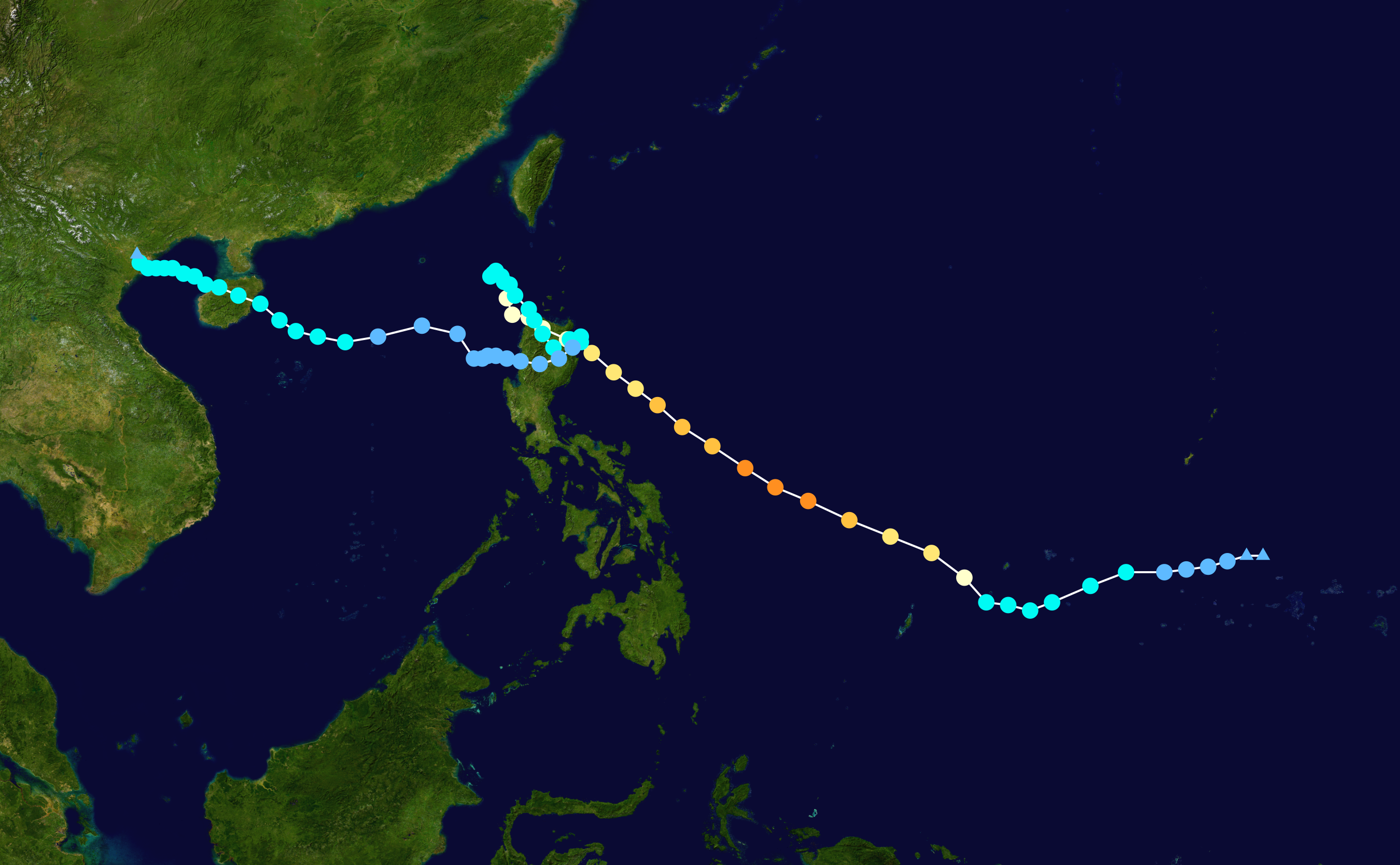 Track map of Typhoon Parma of the 2009 Pacific typhoon season. The points show the location of the storm at 6-hour intervals. The colour represents the storm's maximum sustained wind speeds as classified in the Saffir–Simpson scale (see below), and the shape of the data points represent the nature of the storm, according to the legend below. Saffir–Simpson scale Tropical depression≤38 mph≤62 km/h Category 3111–129 mph178–208 km/h Tropical storm39–73 mph63–118 km/h Category 4130–156 mph209–251 km/h Category 174–95 mph119–153 km/h Category 5≥157 mph≥252 km/h Category 296–110 mph154–177 km/h Unknown Storm type Tropical cyclone Subtropical cyclone Extratropical cyclone / Remnant low / Tropical disturbance / Monsoon depression